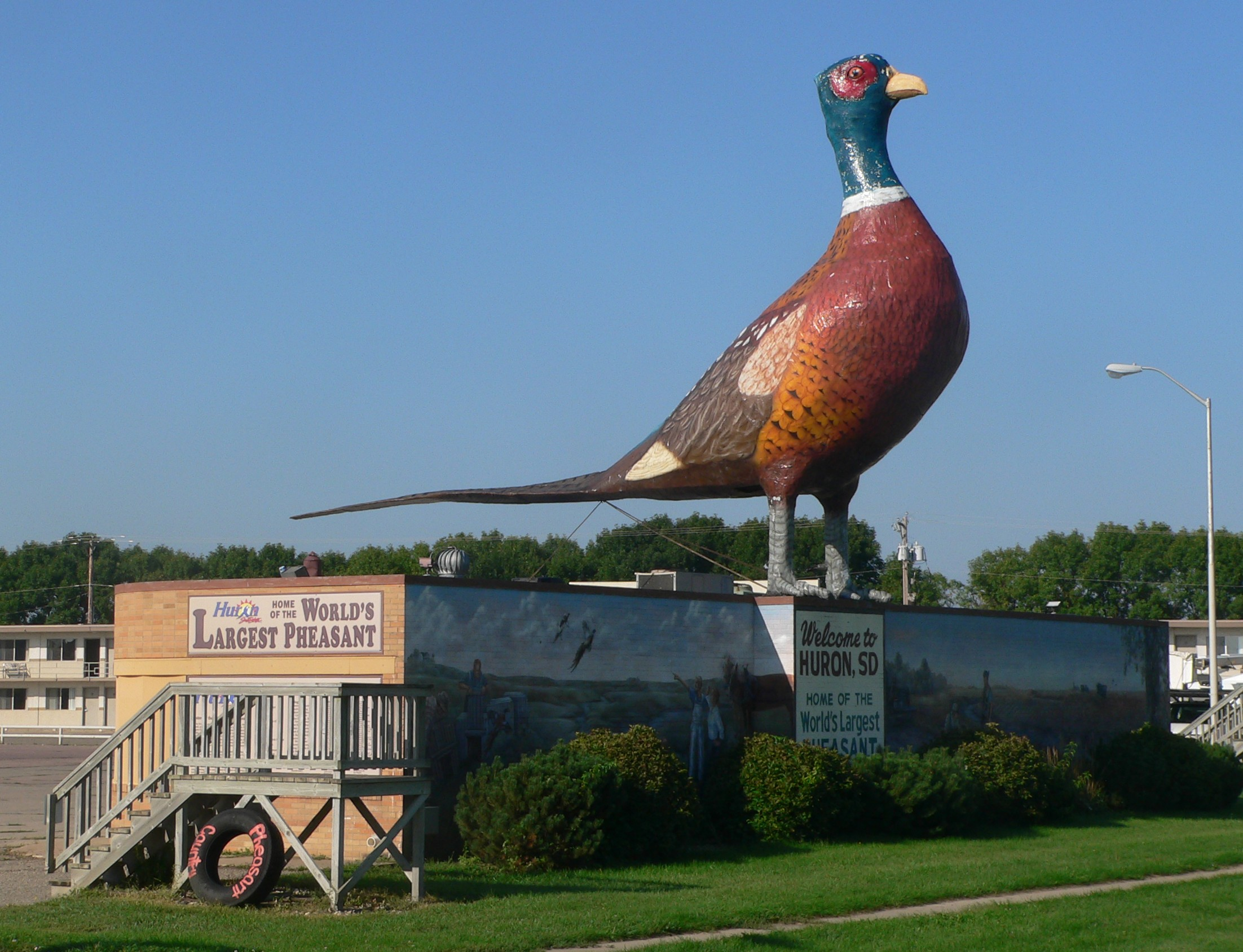 "World's Largest Pheasant", on south side of U.S. Highway 14 in Huron, South Dakota; seen from the northeast.